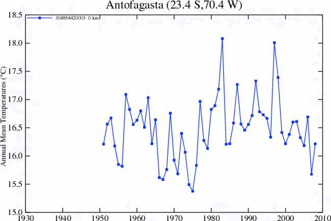 Climate graph of 1951 2008 air average temperaturas at city of Antofagasta, Chile